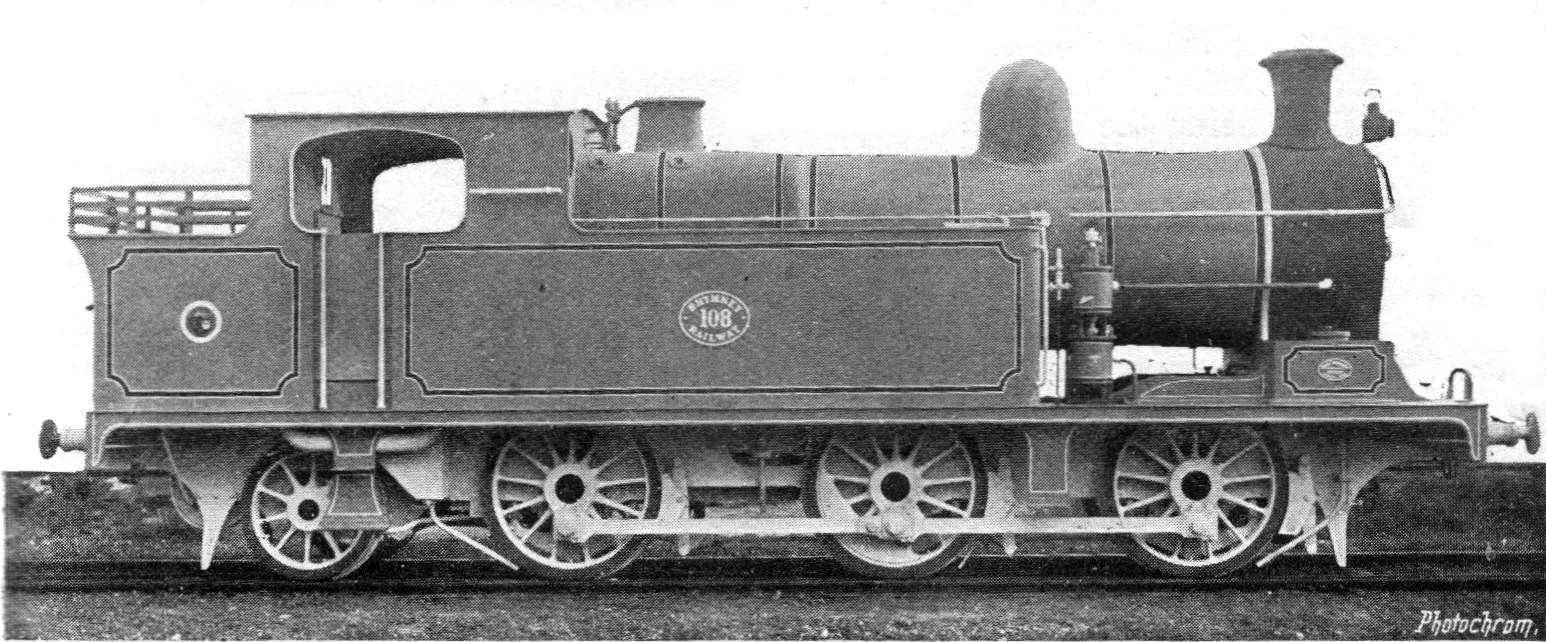 Rhymney Railway 108 (Railway Magazine, 100, October 1905).jpgNew Type of Six Wheels-Coupled Side Tank Engines, Designed by Mr Richard Jenkins, Locomotive Superintendent, Rhymney Railway Company